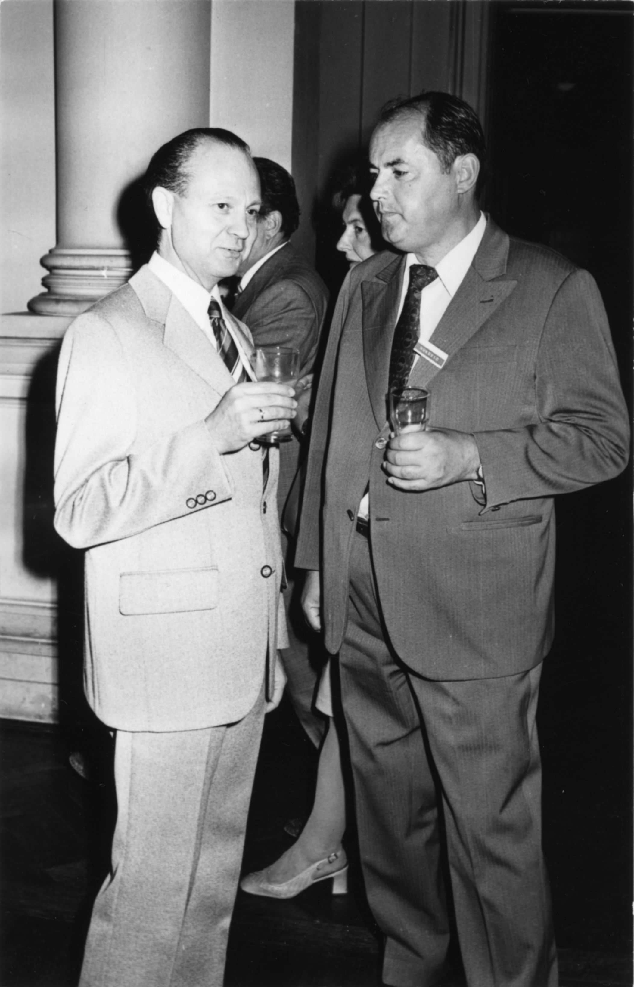 Photograph showing Erich Muscholl and Seid Hukovic in Graz, in 1974